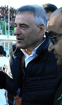 Luka Bonacic